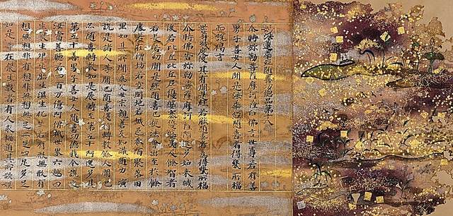 Part of the Lotus Sutra (法華経 hokekyō) or Kunōji Sutra (久能寺経 Kunōjikyō). Heian period, 12th century. Originally inherited in Kunoji Temple. Now owned privately.